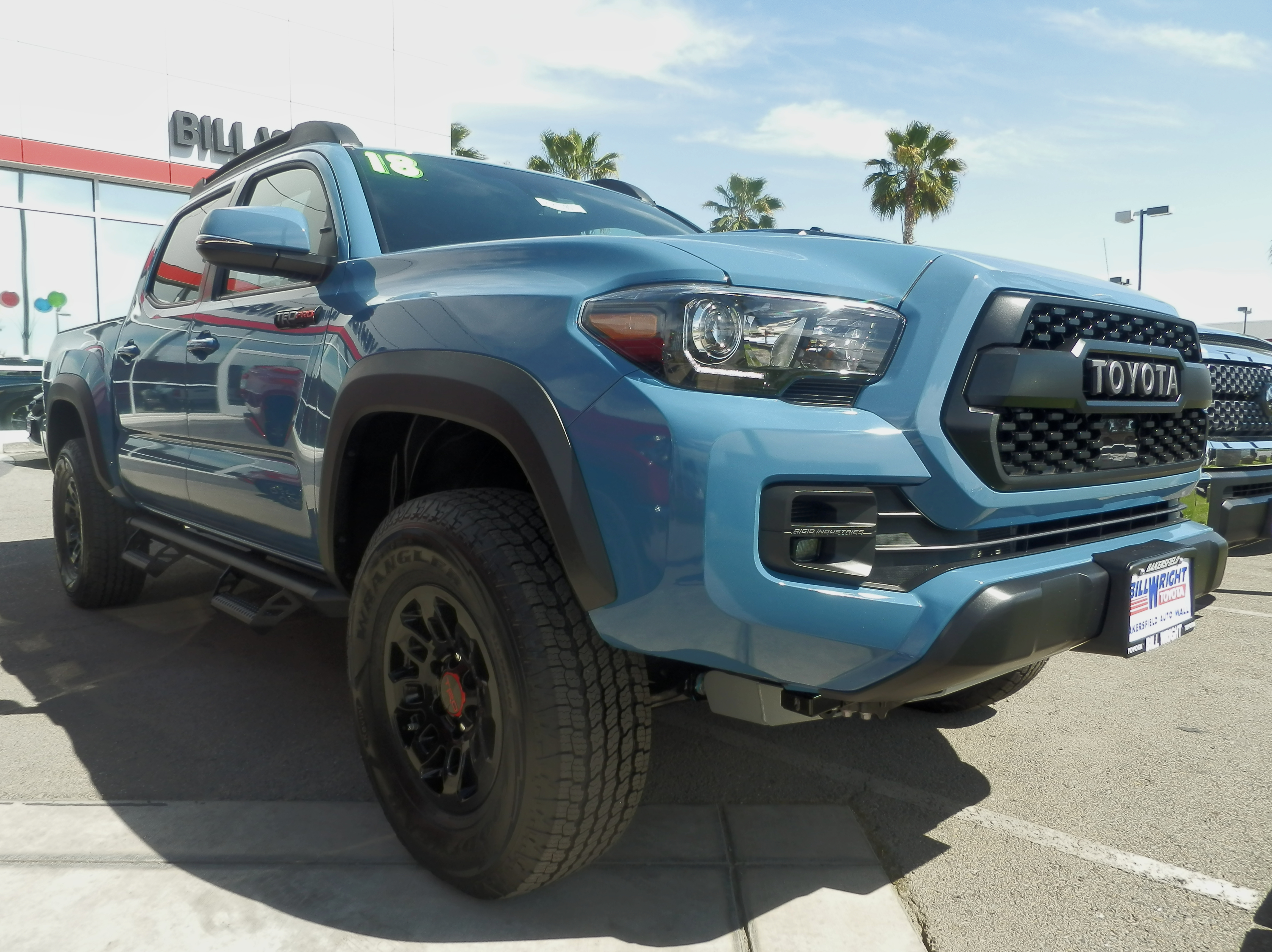 2018 Toyota Tacoma TRD Pro in Bakersfield